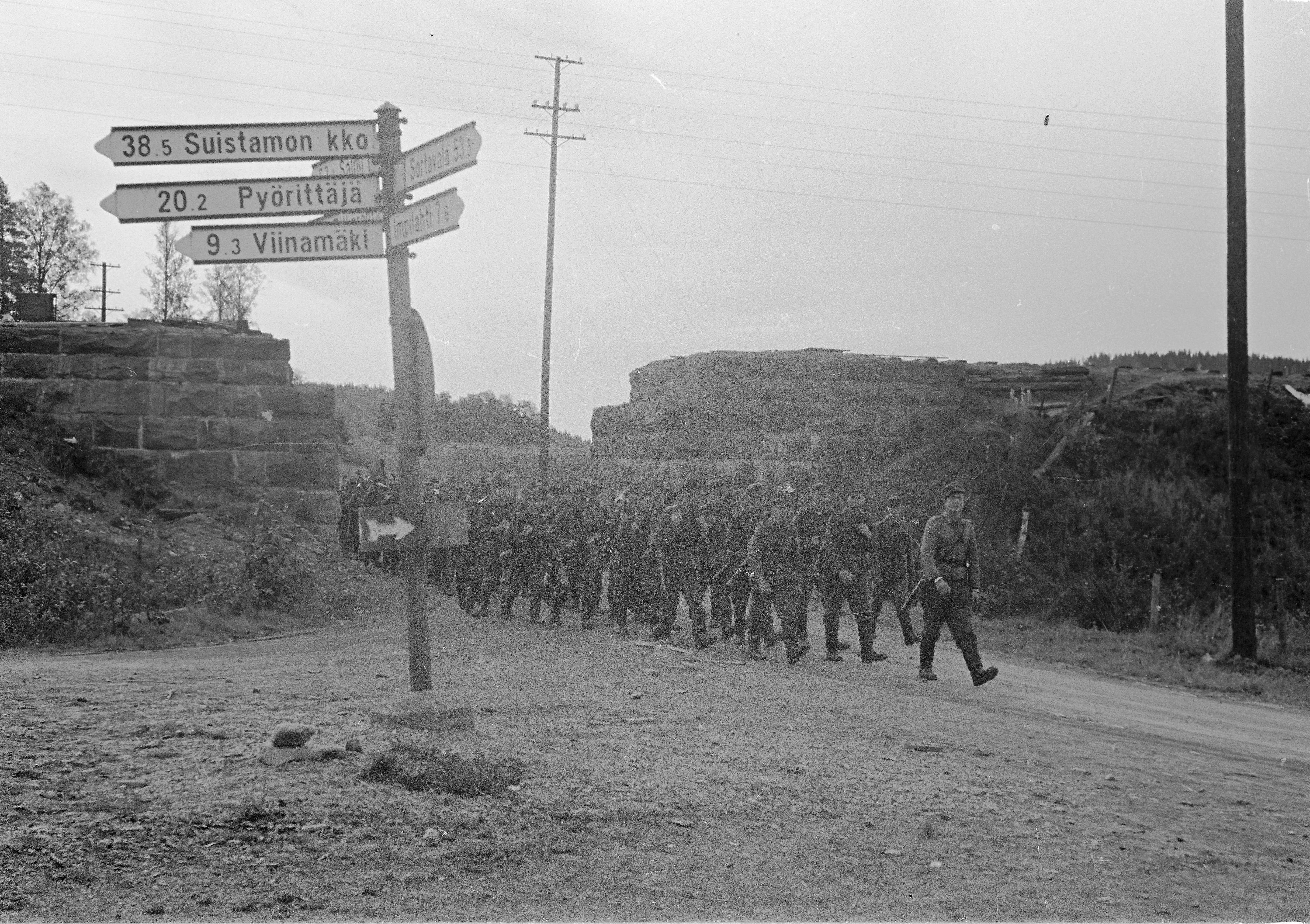 Klo 10.45. Sivuutetaan Suistamon tienristeys.